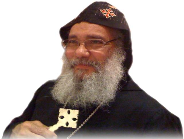 His Grace Bishop Missael, bishop of the Coptic Orthodox Diocese of the Midlands & Affiliated Areas U.K.